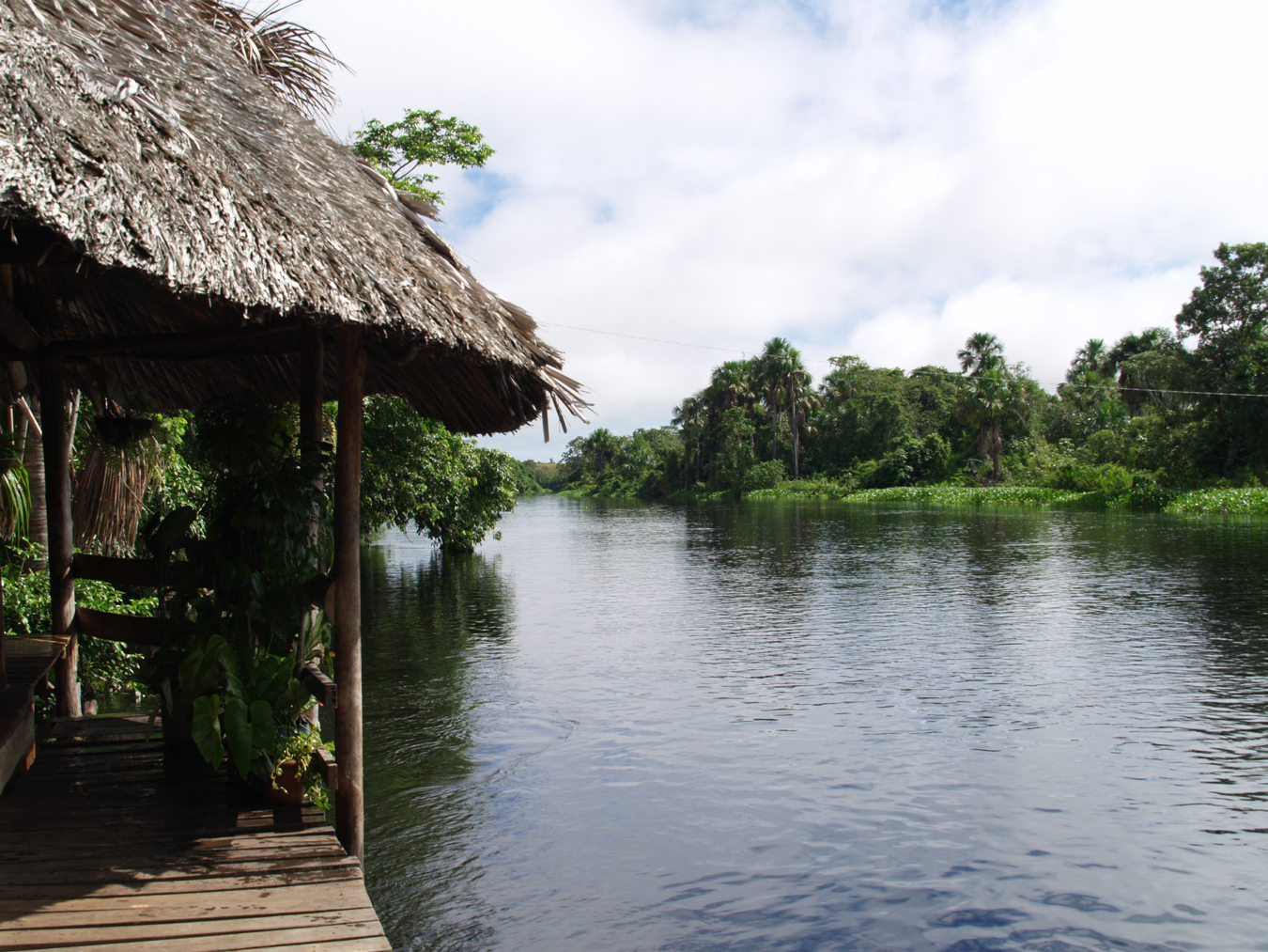 Morichal Largo River, Monagas State, Venezuela.